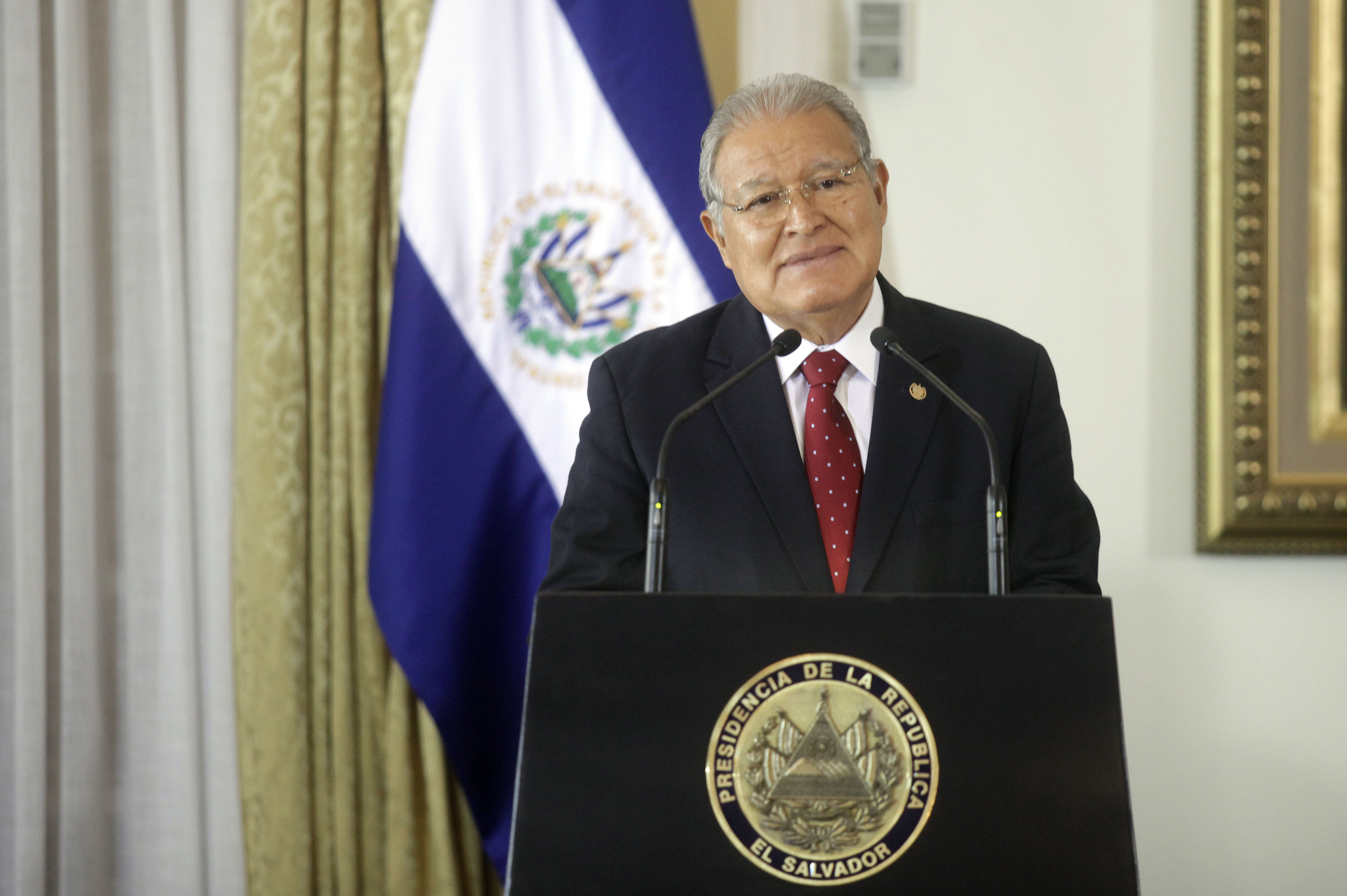 El presidente salvadoreño Salvador Sánchez Cerén dio esta mañana junto a funcionarios de gobierno y empresarios representantes del sector construcción el nuncio de 147 factibilidades para proyectos de construcción, nuevos proyectos comunitartios, perforación de siete pozos para la zona oriental y el desarrollo de tres plantas de tratamiento de aguas residuales.